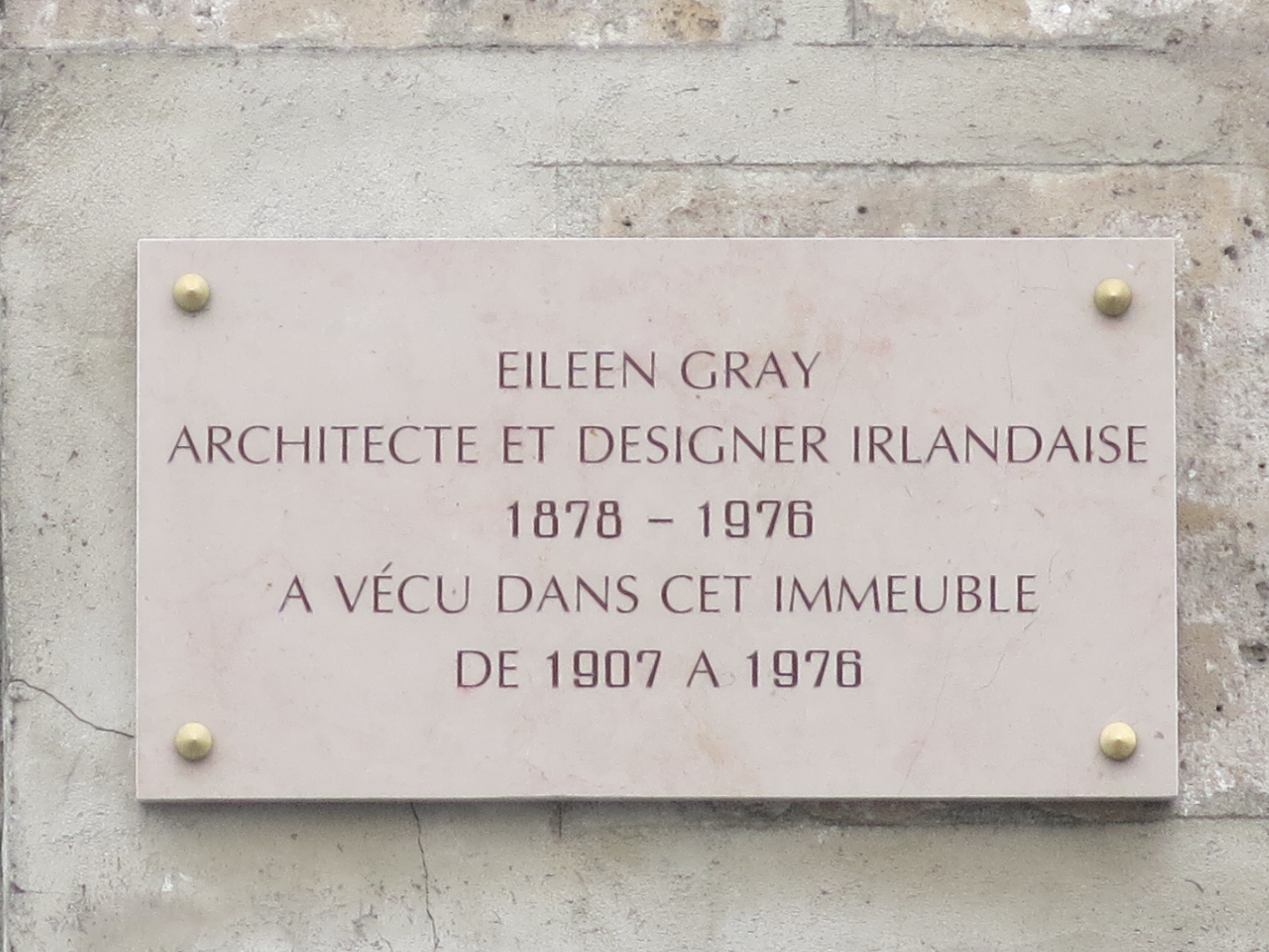 Plaque Eileen Gray, 21 rue Bonaparte, Paris 6th arrond. (France).